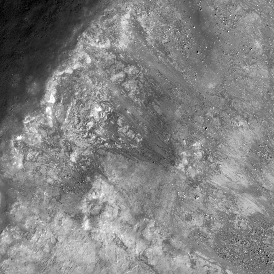 Berzelius W, a 4-km crater located on the northeast limb of the Moon (as seen from the Earth), exhibits abundant evidence for mass wasting. Materials of varying albedo create intricate patterns on the walls of the crater, including the banding patterns featured in the image.